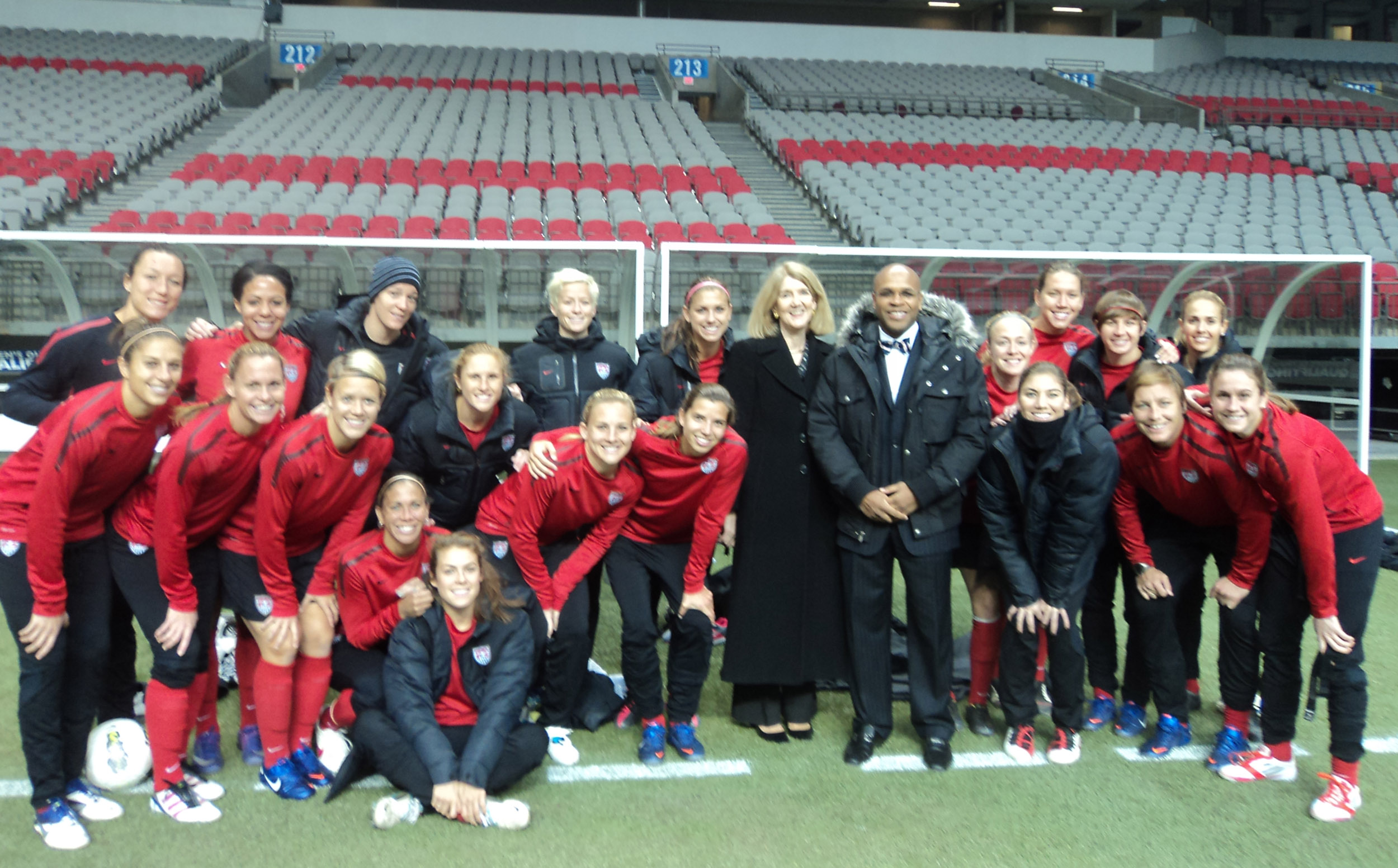 The qualifying games for the 2012 London Olympics kicked off January 19 at BC Place Stadium. The USA team is joined here by Consul General Anne Callaghan and consulate staffer Anthony Walker.